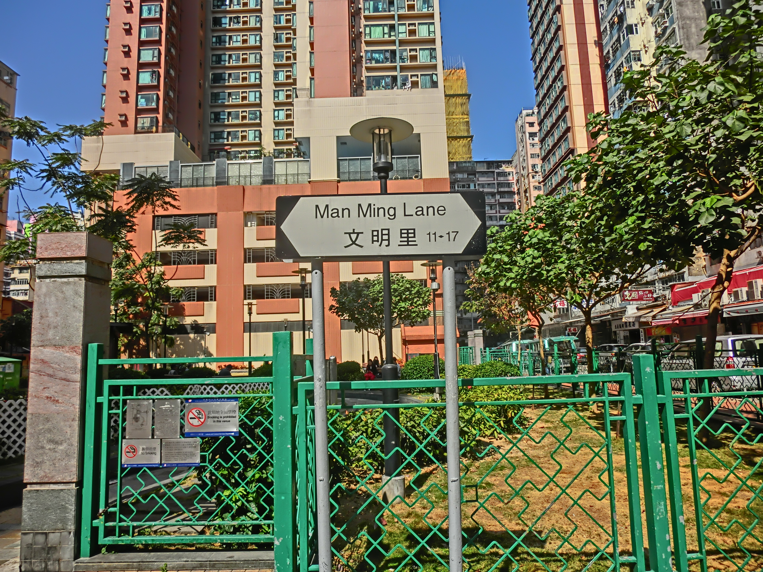 文明里, Man Ming Lane, Yau Ming Lane, Yau Ma Tei, Hong Kong